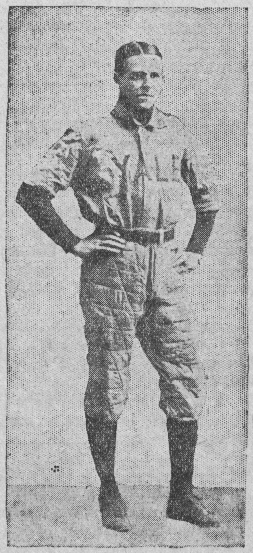 Portrait of Charles de Saulles when he was captain of the Yale baseball team